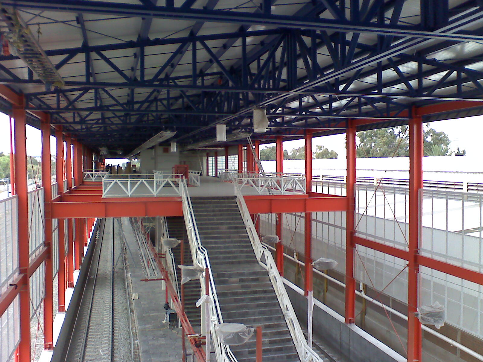 Fortuna Station along Line 1 of the Ferrocarril Suburbano de la Zona Metropolitana del Valle de México